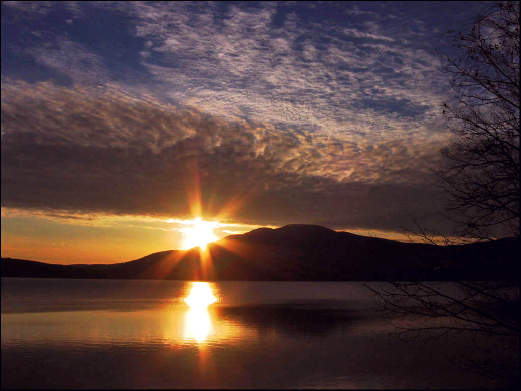 Sunset over Ashokan High Point and Ashokan Reservoir in the Catskill Mountains of New York, USA